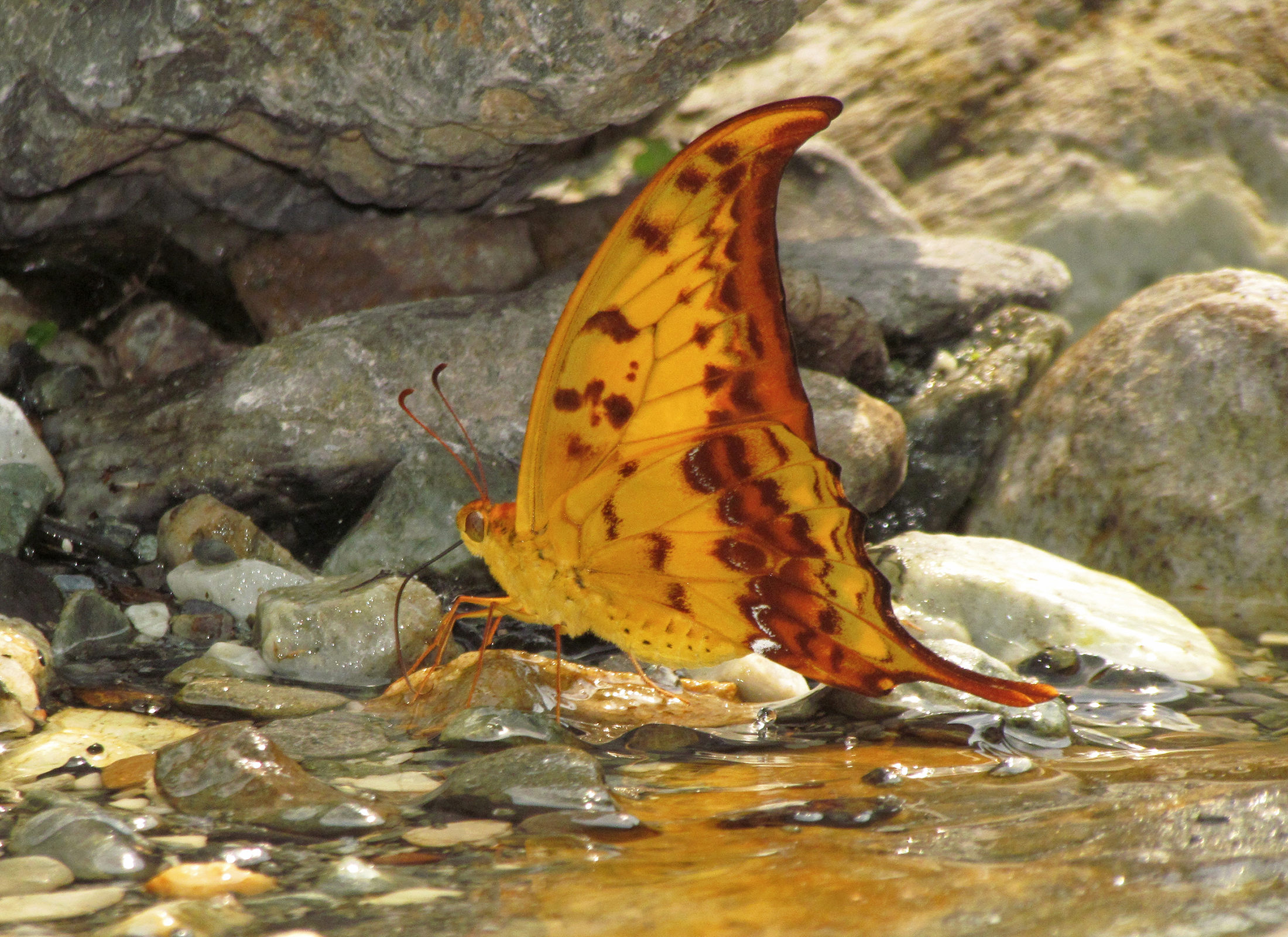 Close wing of Meandrusa payeni Boisduval, 1836 – Yellow Gorgon. Subspecies:Meandrusa payeni evan Doubleday, 1845 – Sikkim Yellow Gorgon